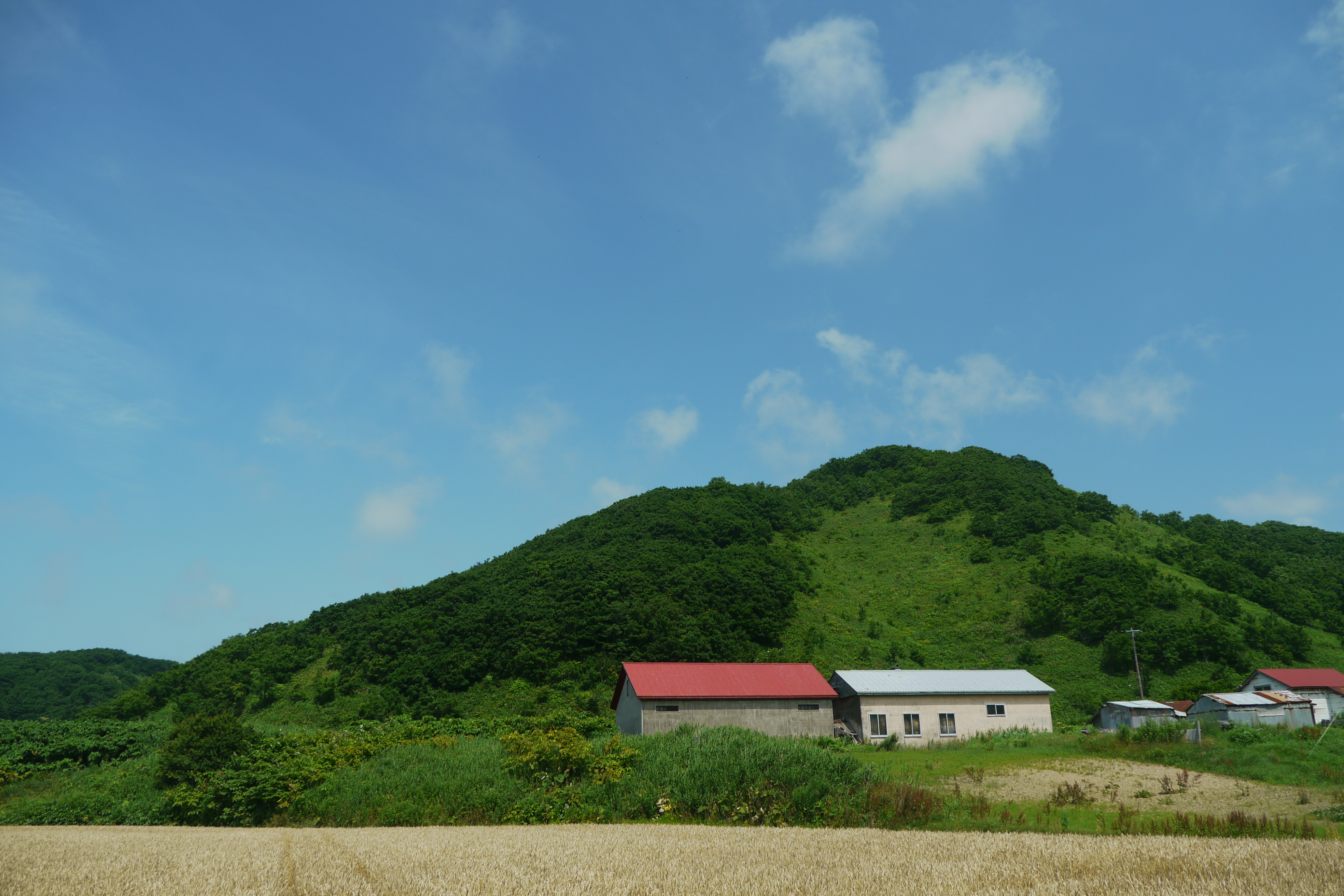 The remains of Ōtodo Station of the Haboro Line in Hokkaido, Japan. Photo taken on July 26, 2011.